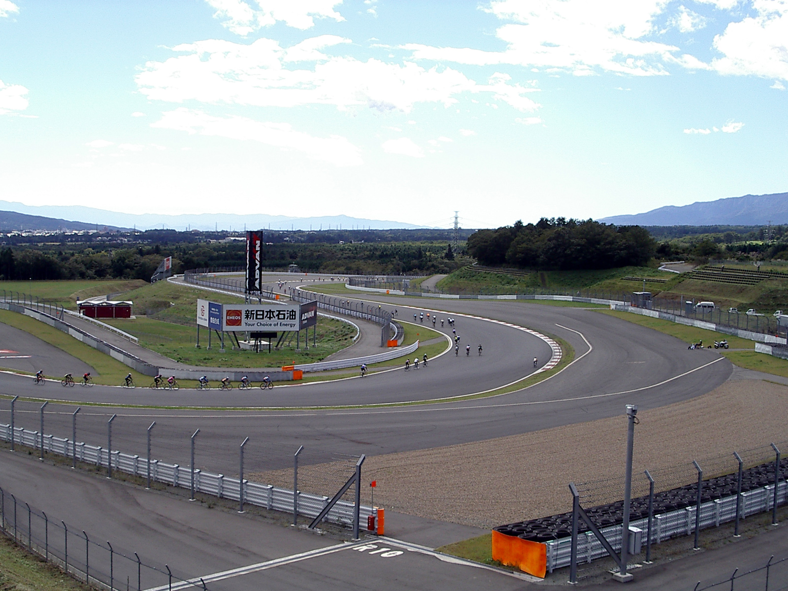 Fuji Speedway Hairpin corner The picture was taken by myself at "2006 cycling festival in Oyama" in October 7, 2006 富士スピードウェイのヘアピンコーナー。2006年10月7日に行なわれた「2006 サイクリングフェスティバル イン 小山」で撮影。